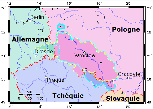 Prussian Silesia, 1871, outlined in yellow; (Austrian) Silesia before the annexion by Prussia in 1740, outlined in cyan. Map showing post-1994 state borders.